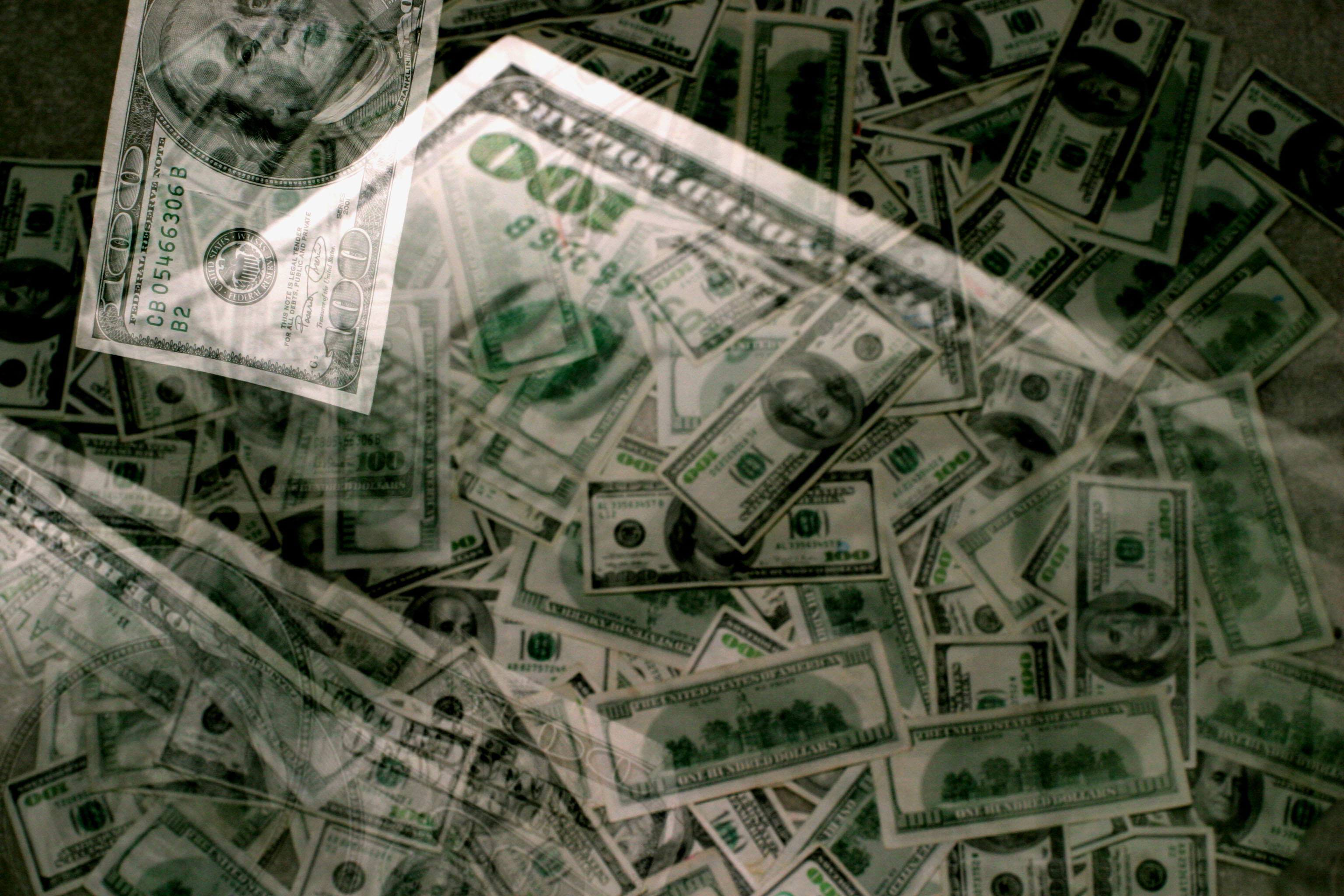 a one hundred dollar bill colection